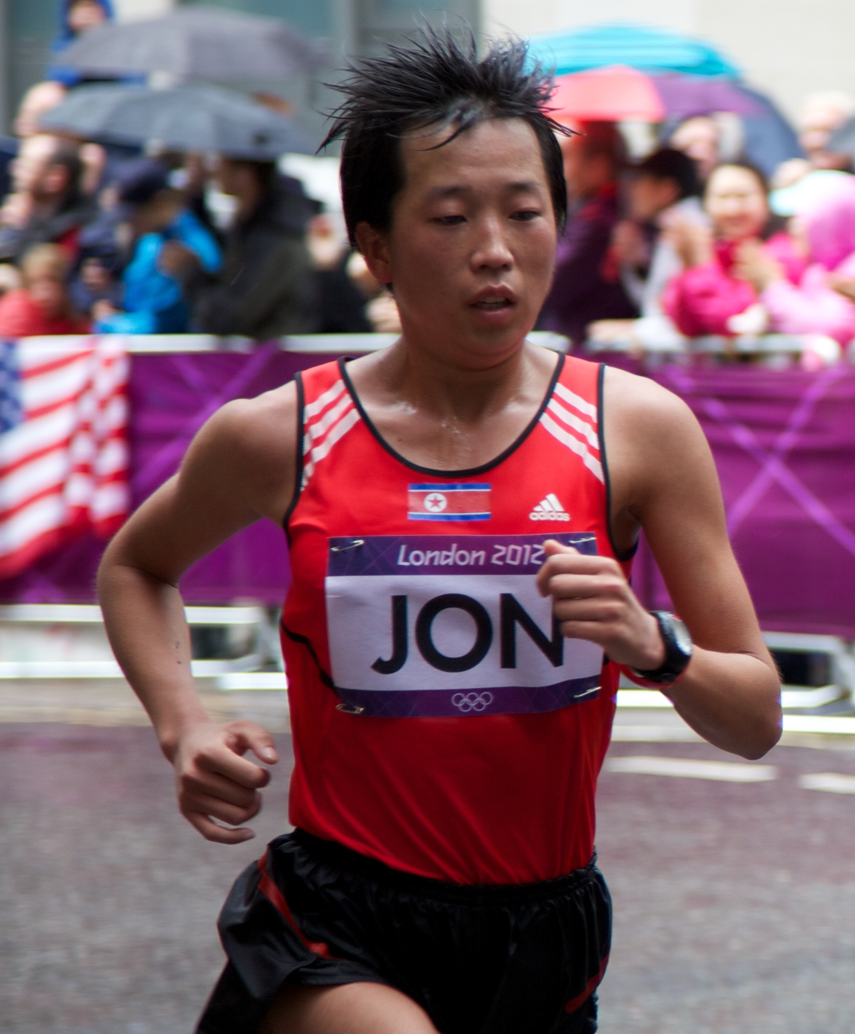 Women's Marathon, Kyong-Hui Jon (North Korea), Claire Hallissey (Great Britain), Adriana Aparecida da Silva (Brazil)